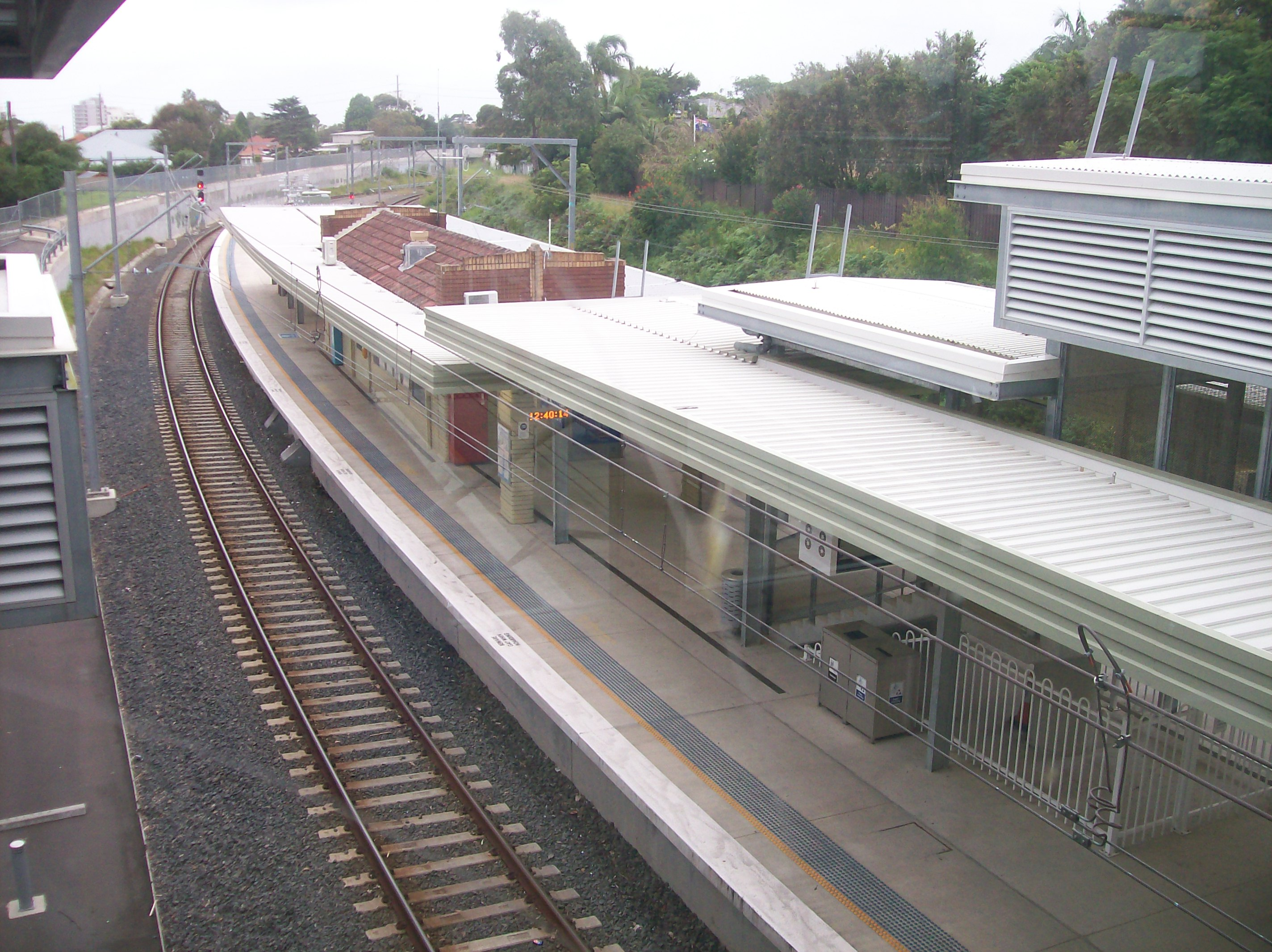 Woolooware railway station